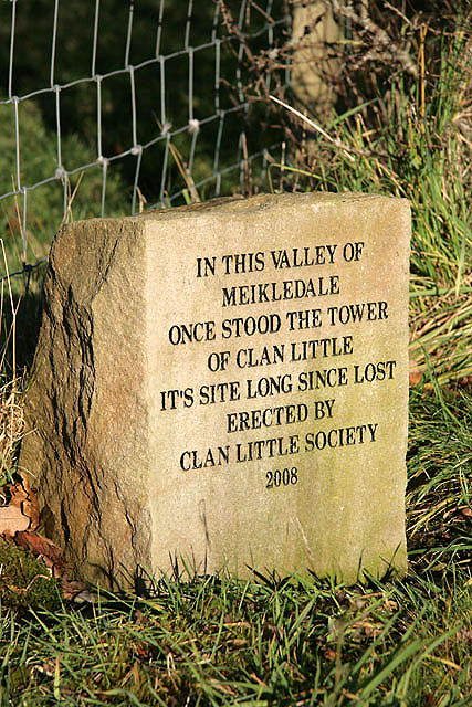 Commemorative stone at Ewes Hall, marking the location of the now-disappeared tower of Clan Little. The stone was erected by the Clan Little in 2008 to mark the location of the tower to the northwest of Ewes Hall in the Meikledale Valley.[1]